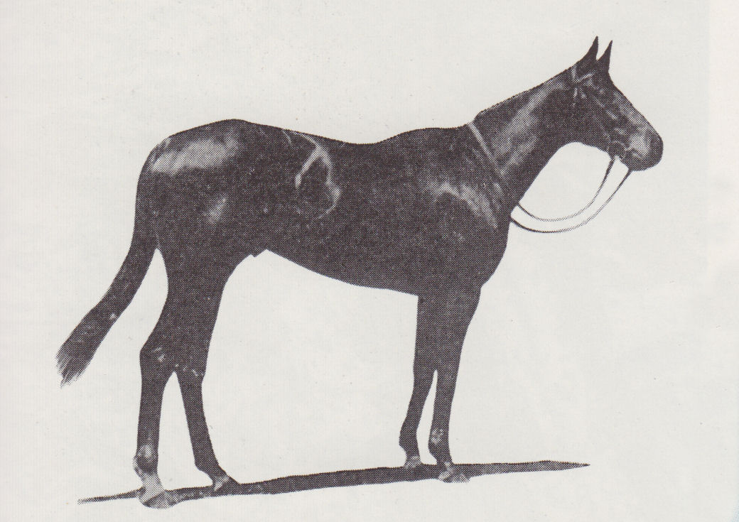 1933 Tokyo yushun(japanese derby) winner kabutoyama.